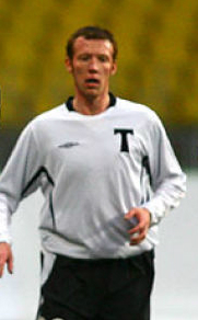 Viktor Bolikhov in action for FC Torpedo Moscow